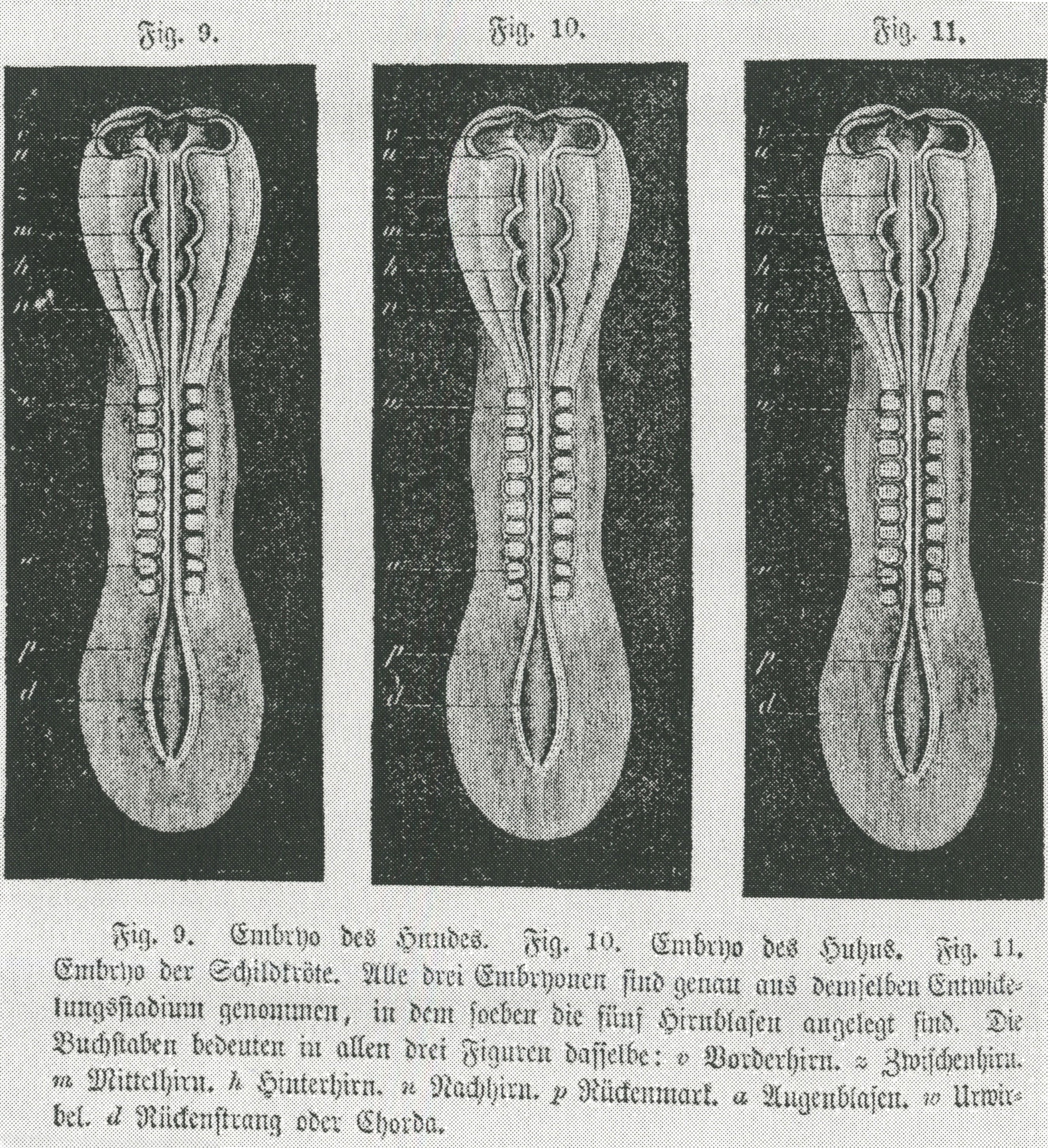 The pictures illustrate Ernst Haeckel's biogenetic law. The same woodcut was used to illustrate embryos of 3 different species. The images initiated controversies and charges of fraud.